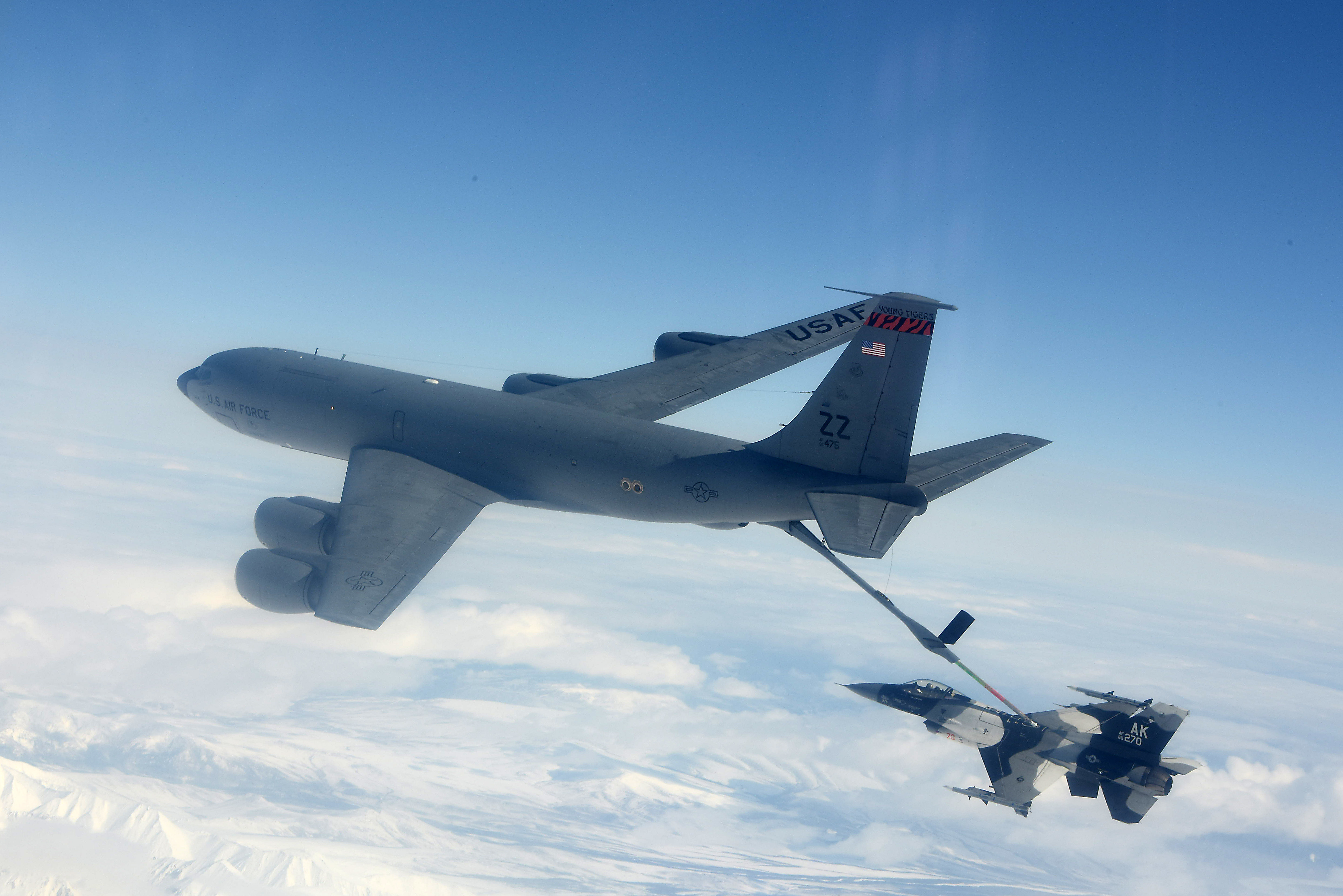 A U.S. Air Force KC-135R Stratotanker assigned to the 909th Air Refueling Squadron based at Kadena Air Base, Japan, refuels an F-16 Fighting Falcon aircraft assigned to the 18th Aggressor Squadron from Eielson Air Force Base, Alaska May 2, 2018. The aircraft were participating in a training sortie as part of RED FLAG-Alaska 18-1 which takes place in the skies over the Joint Pacific Alaska Range Complex in Interior Alaska. (U.S. Air Force photo by Tech. Sgt. Jerilyn Quintanilla)